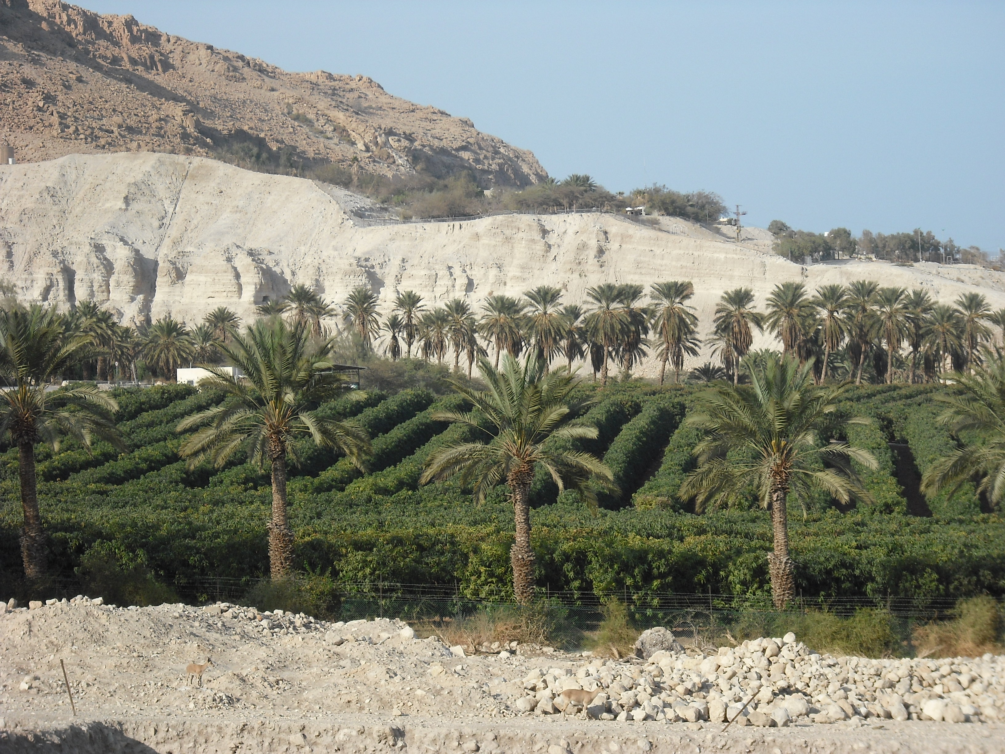 Ein Gedi landscape